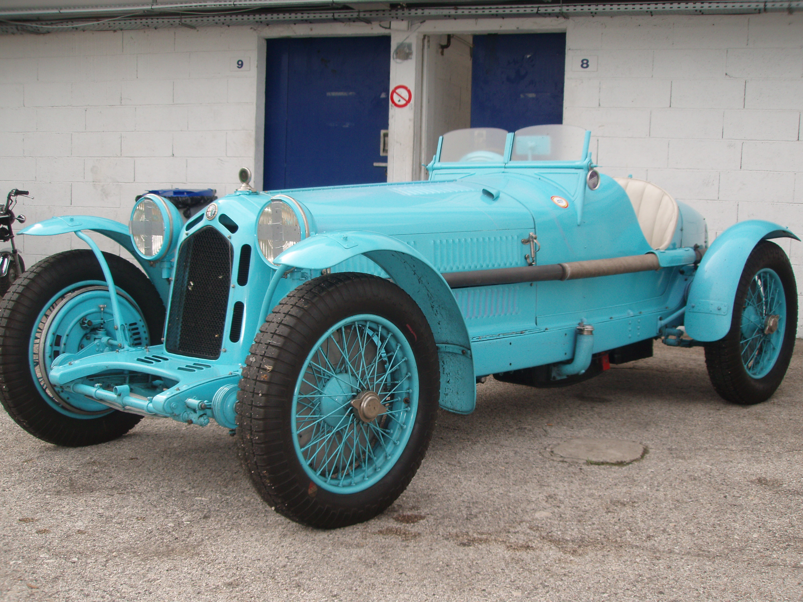 An Alfa-Romeo 8C race car in the 2007 "Grand Prix de l'Âge d'Or" in the pitlane of Dijon-Prenois. It is unknown wether it is a 2300 or 2600.